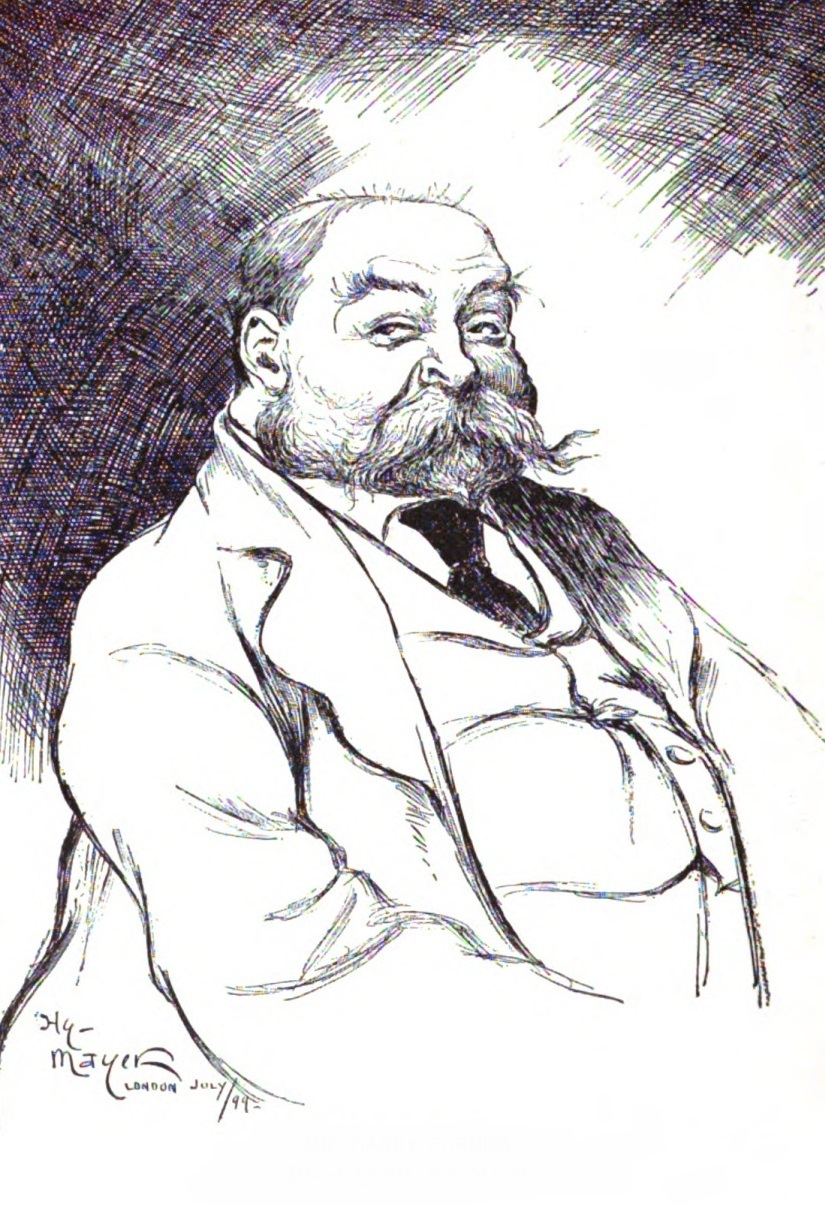 Harry Furniss